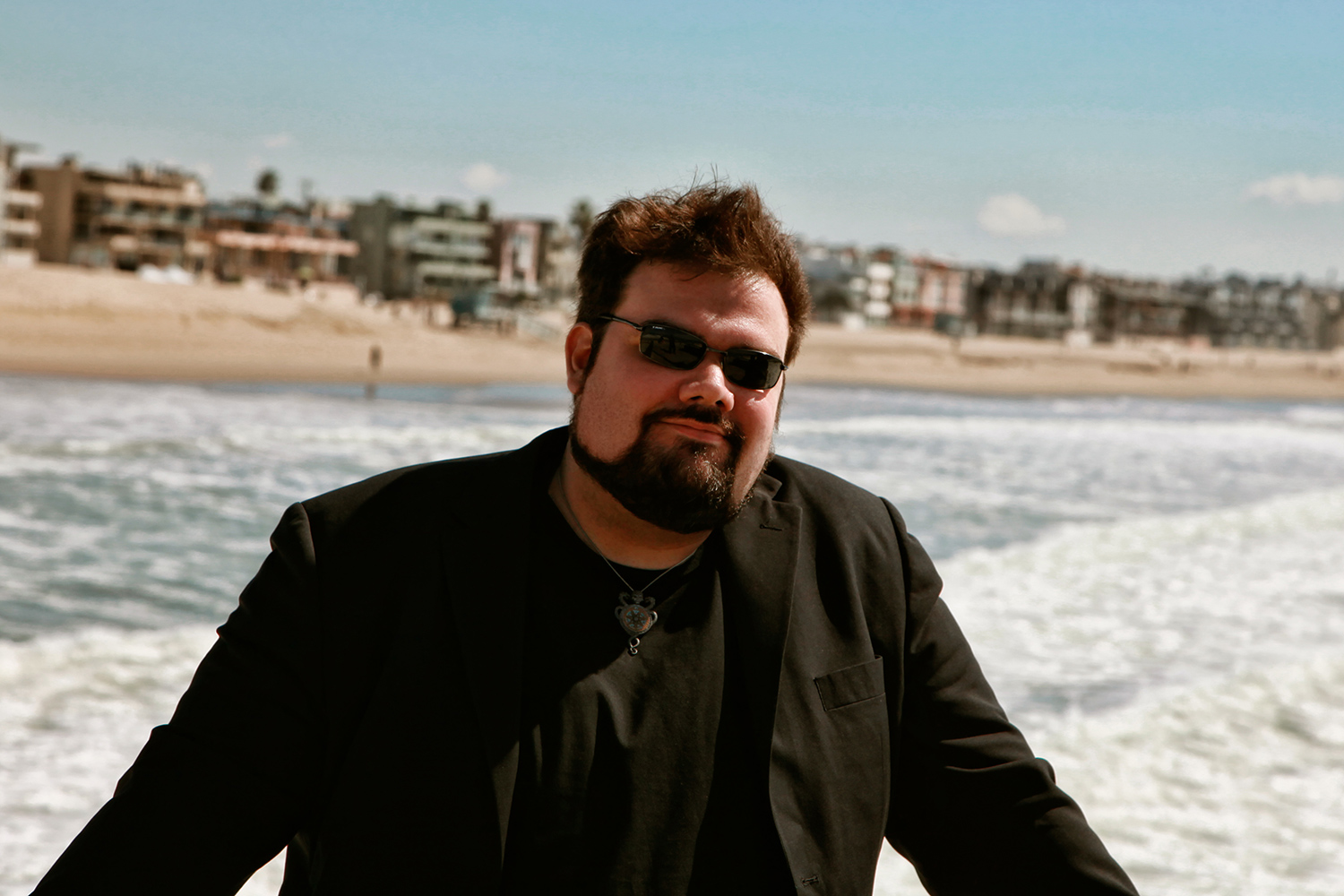 André M. Hünseler at Venice Beach, CA, USA